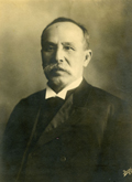 Rev.HONDA Youitu